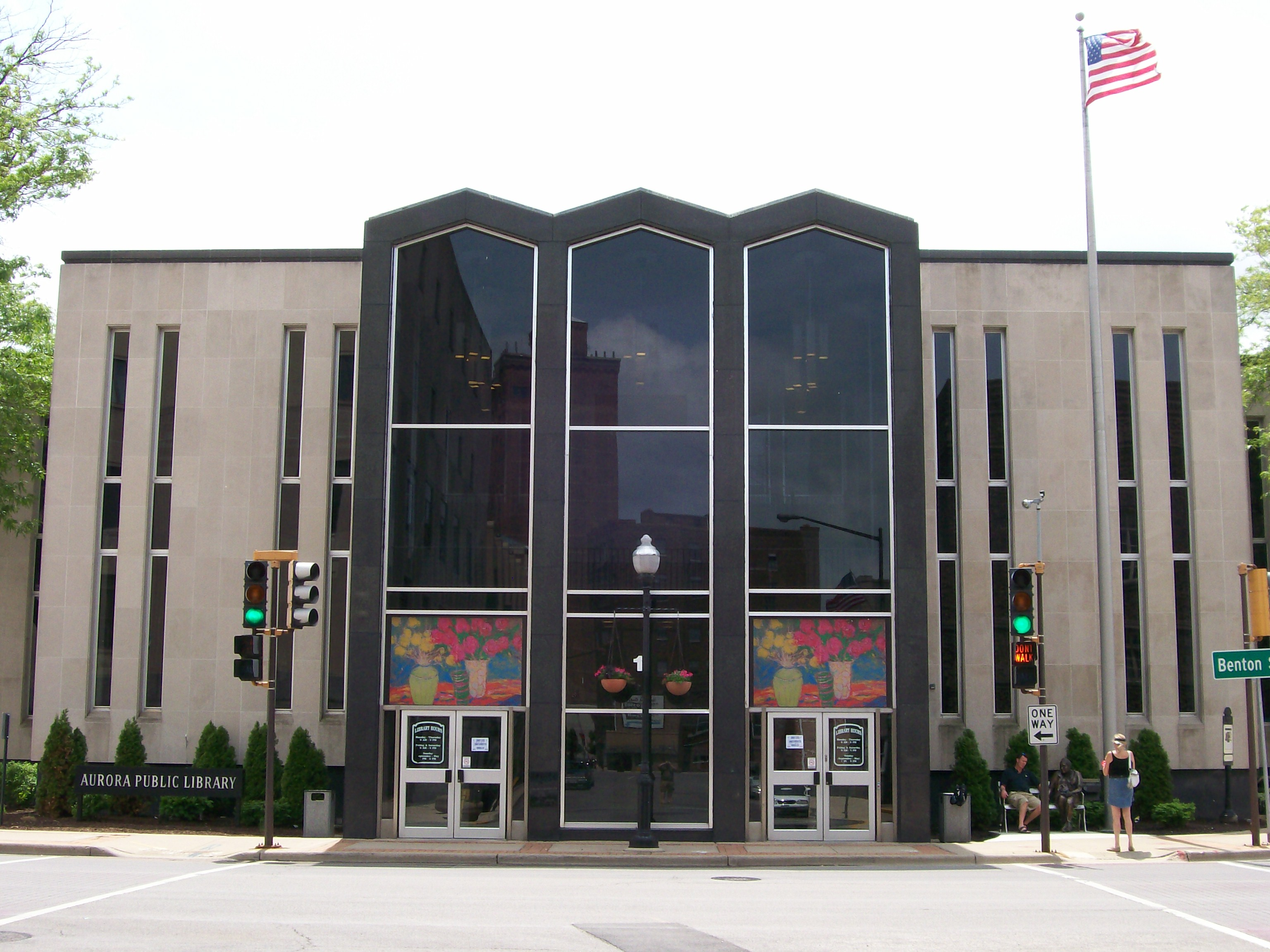 Aurora Public Library. Remodelled c. 1969